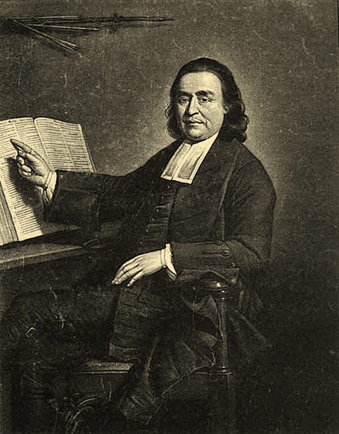 Samson Occum, Mohegan missionary